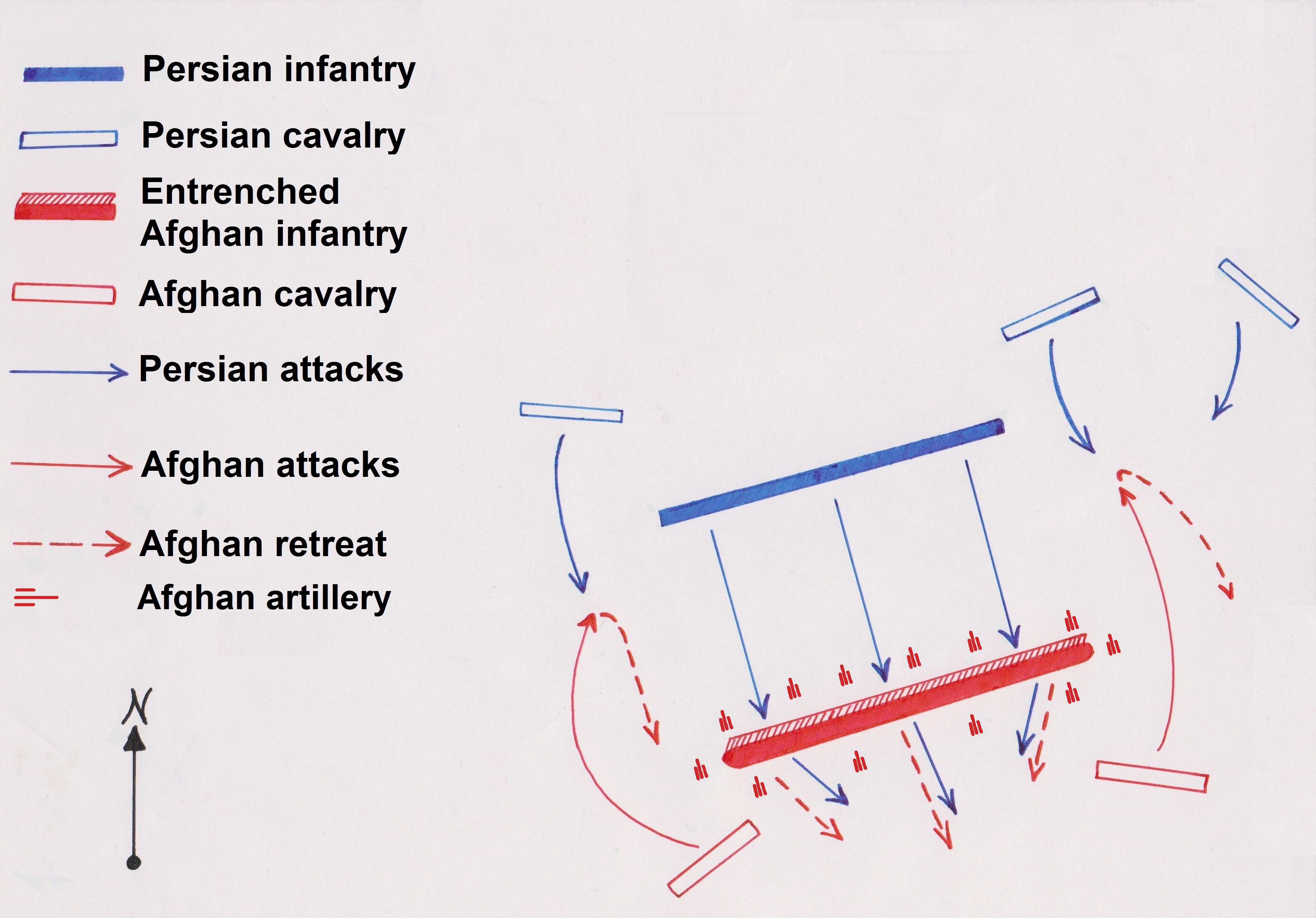 battle diagram..